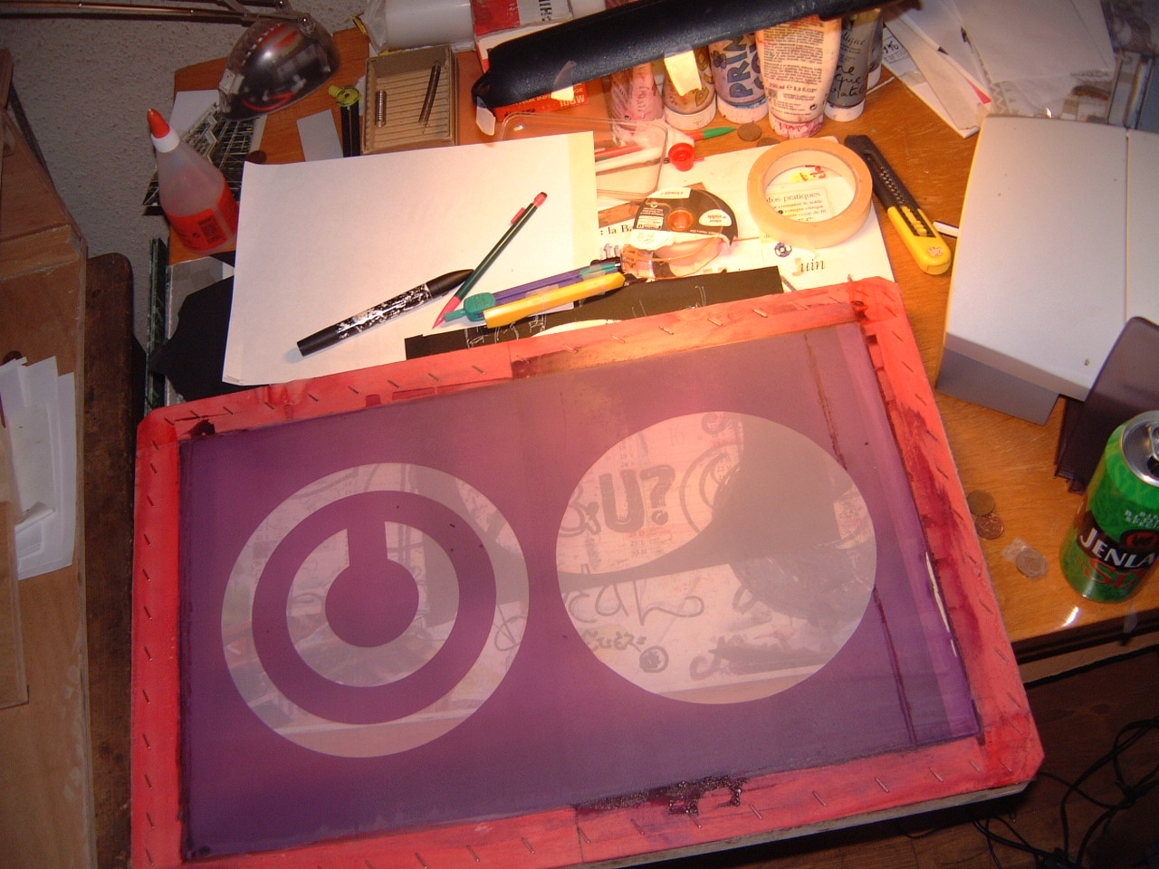 Home made screen for print copyleft tee-shirt.